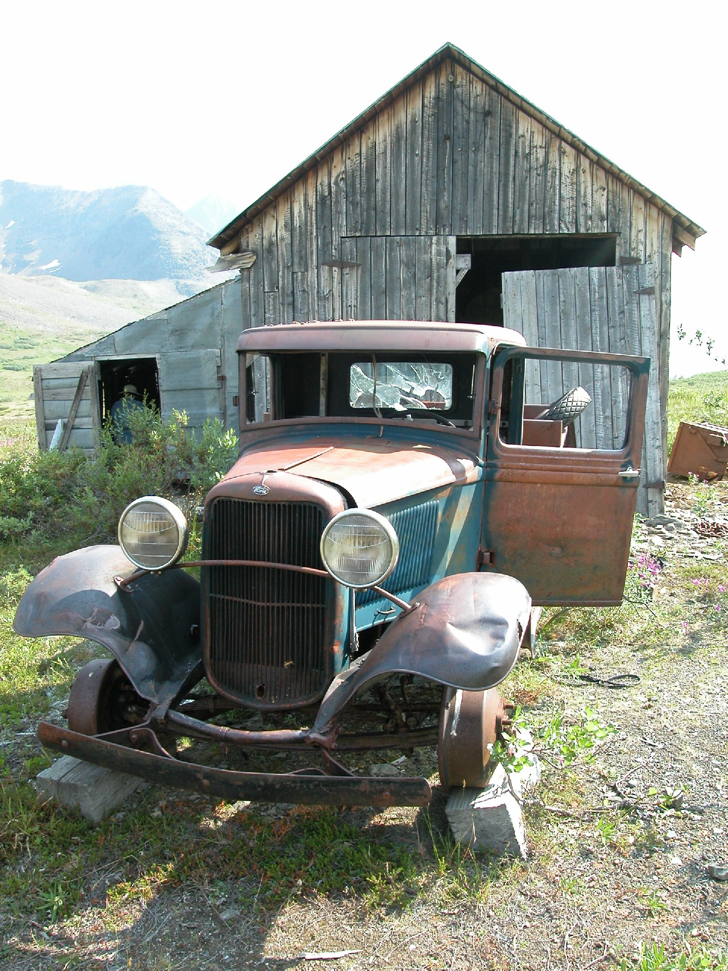 Bremner Mining Camp Mechanic/Blacksmith shop, Wrangell-St. Elias National Park, Alaska. The building is part of the Bremner Historic Mining District, which is listed on the National Register of Historic Places.